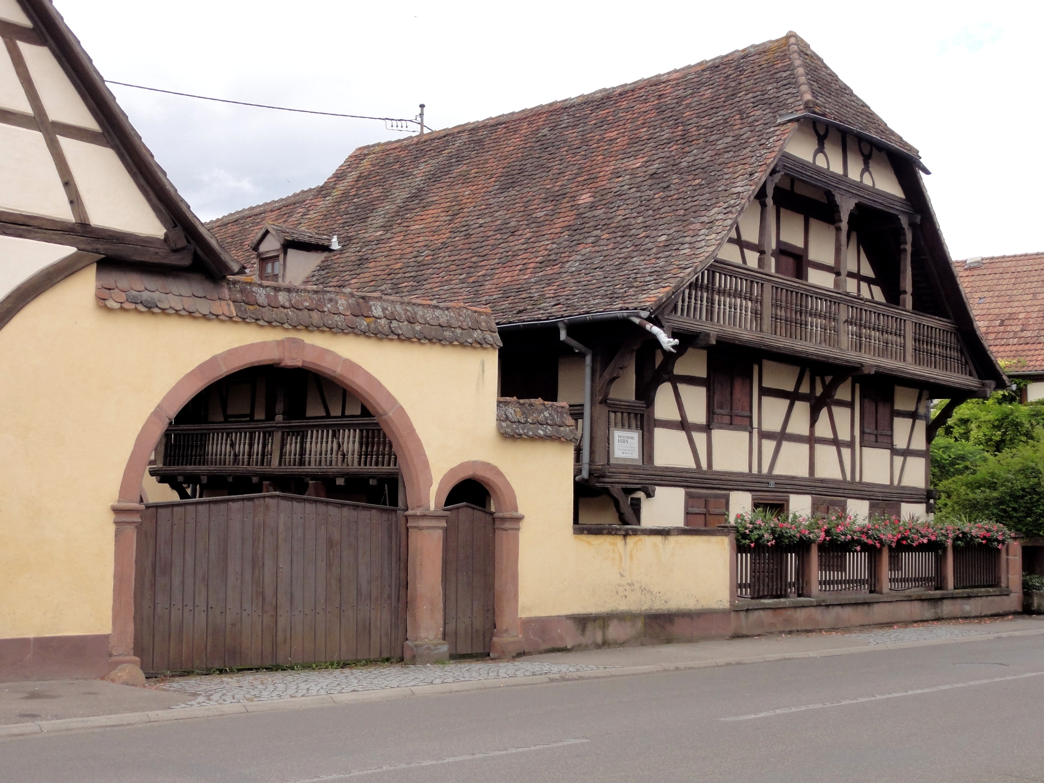 Alsace, Bas-Rhin, Baldenheim, Immeuble Boegler, 4 rue Principale (XVIIe-XVIIIe). It is indexed in the Base Mérimée, a database of architectural heritage maintained by the French Ministry of Culture, under the references PA00084596 and IA67010734 .